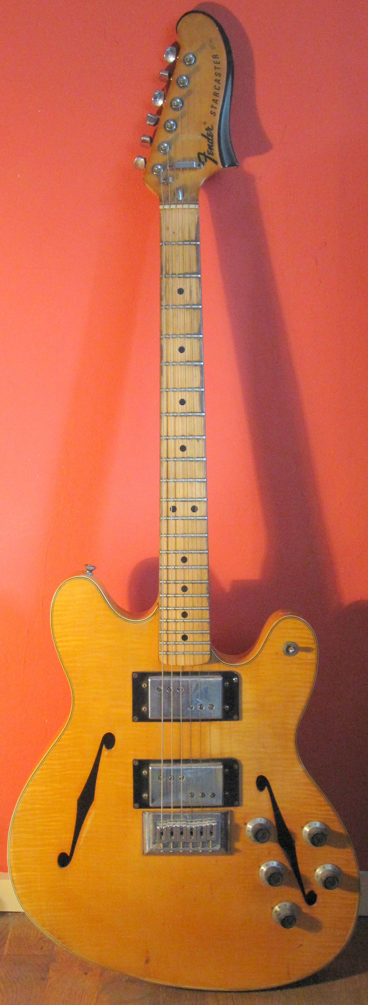 Fender Vintage Starcaster, a little worn from almost 25 years of use.